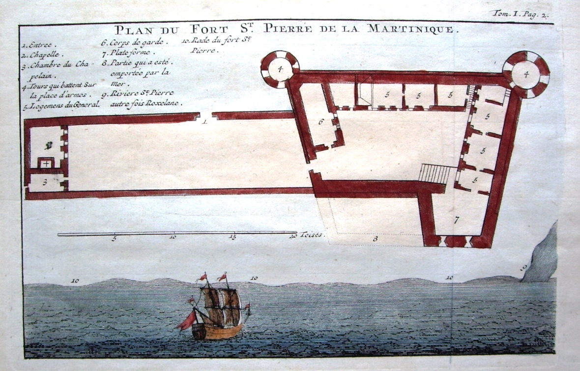 Early copper plate engraving of the Caribbean Island of Martinique titled ' Plan du Fort St Pierre de la Martinique' The engraving is by Jean Baptiste Labat and dates from around 1742. Plan of the fort with index and a picture of an early ship heading towards the island. Text in French.